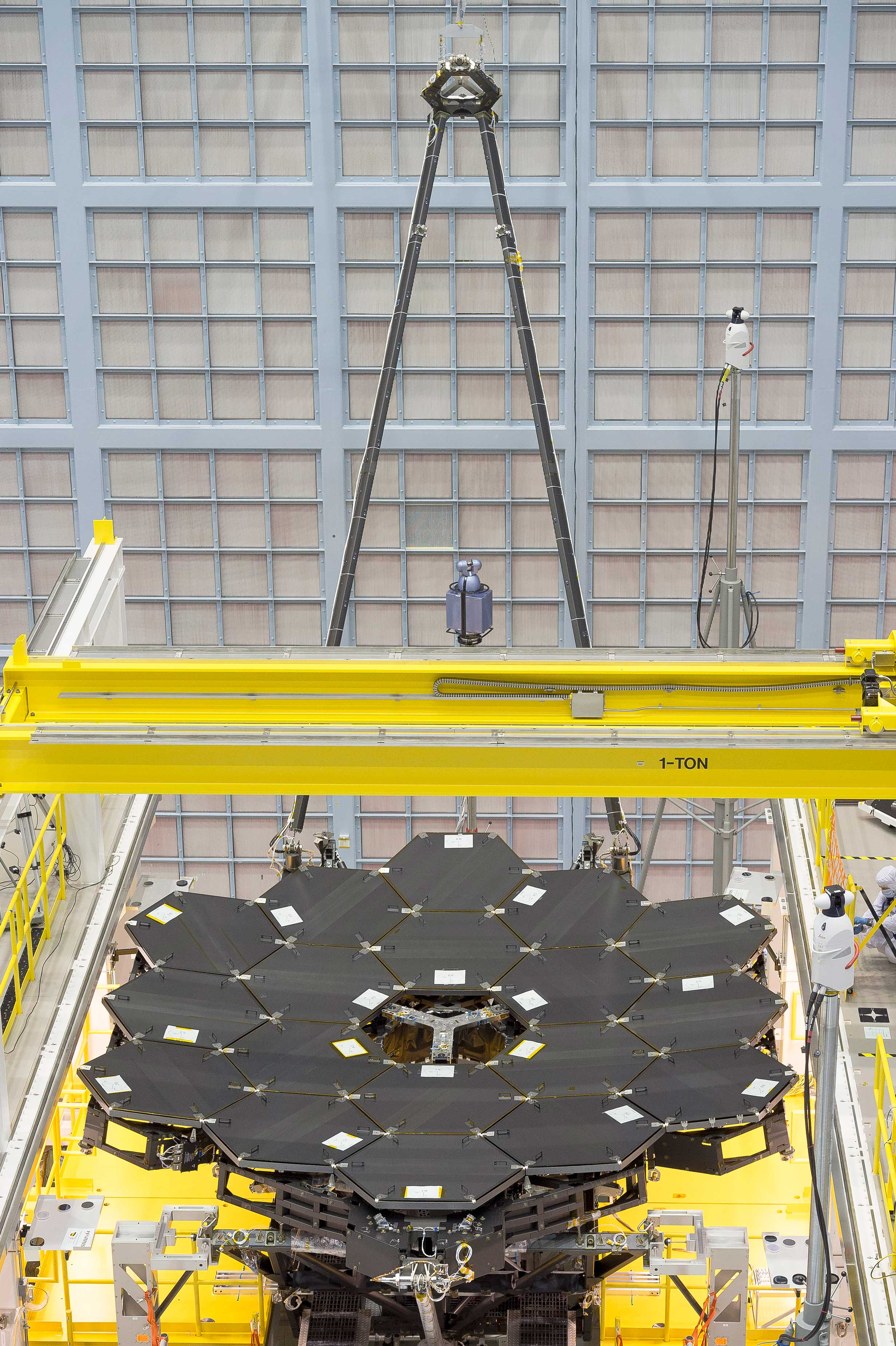 In this rare view, the James Webb Space Telescope's 18 mirrors are seen fully installed on the James Webb Space Telescope structure at NASA's Goddard Space Flight Center in Greenbelt, Maryland.